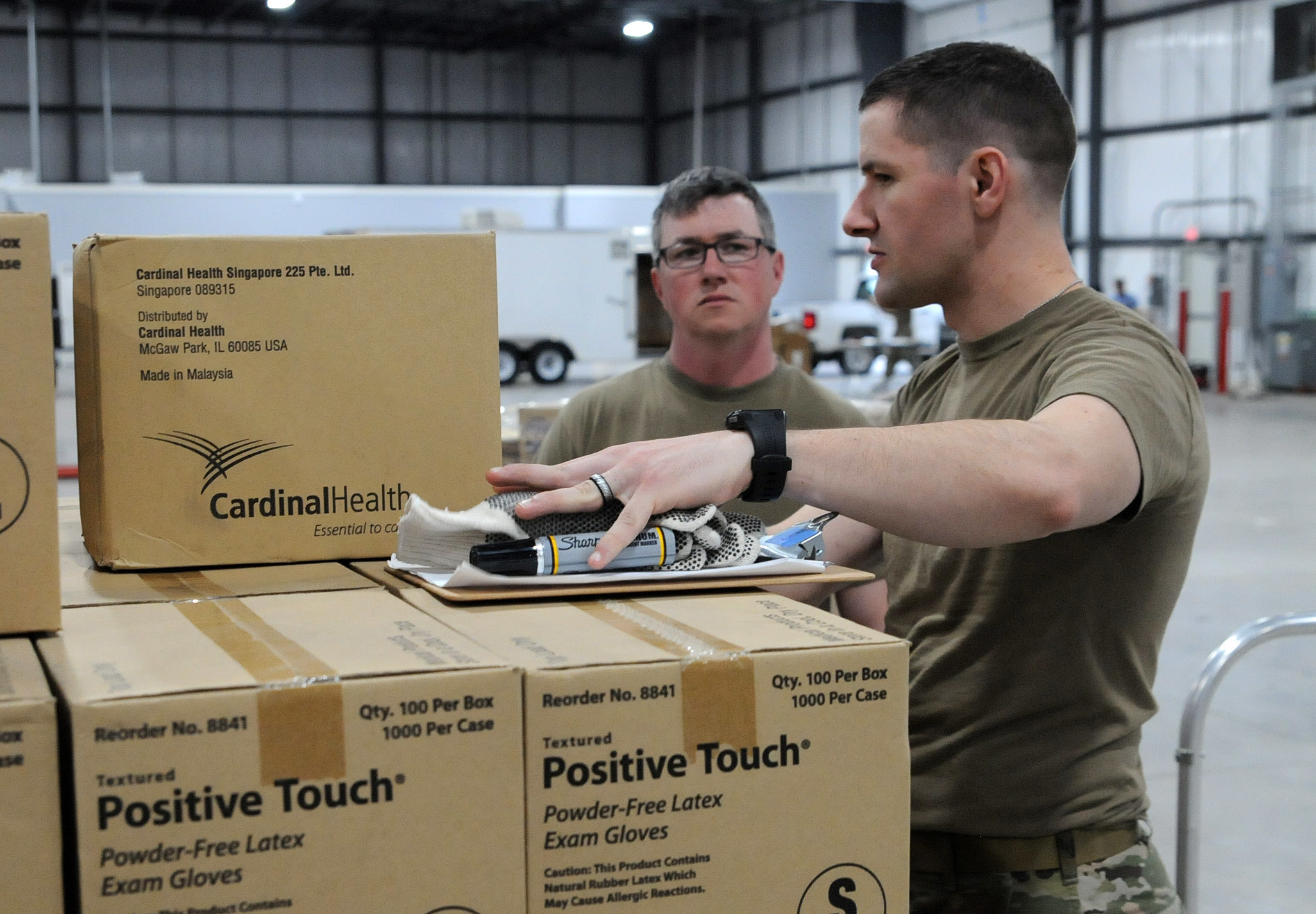 Specialists, Cameron Doame and James Stutler, from the Kentucky National Guard help load pallets of medical supplies such as masks, face shields and gowns, that will be distributed all over the state in response to the COVID-19 pandemic. (U.S. Army National Guard photo by Staff Sgt. Benjamin Crane)